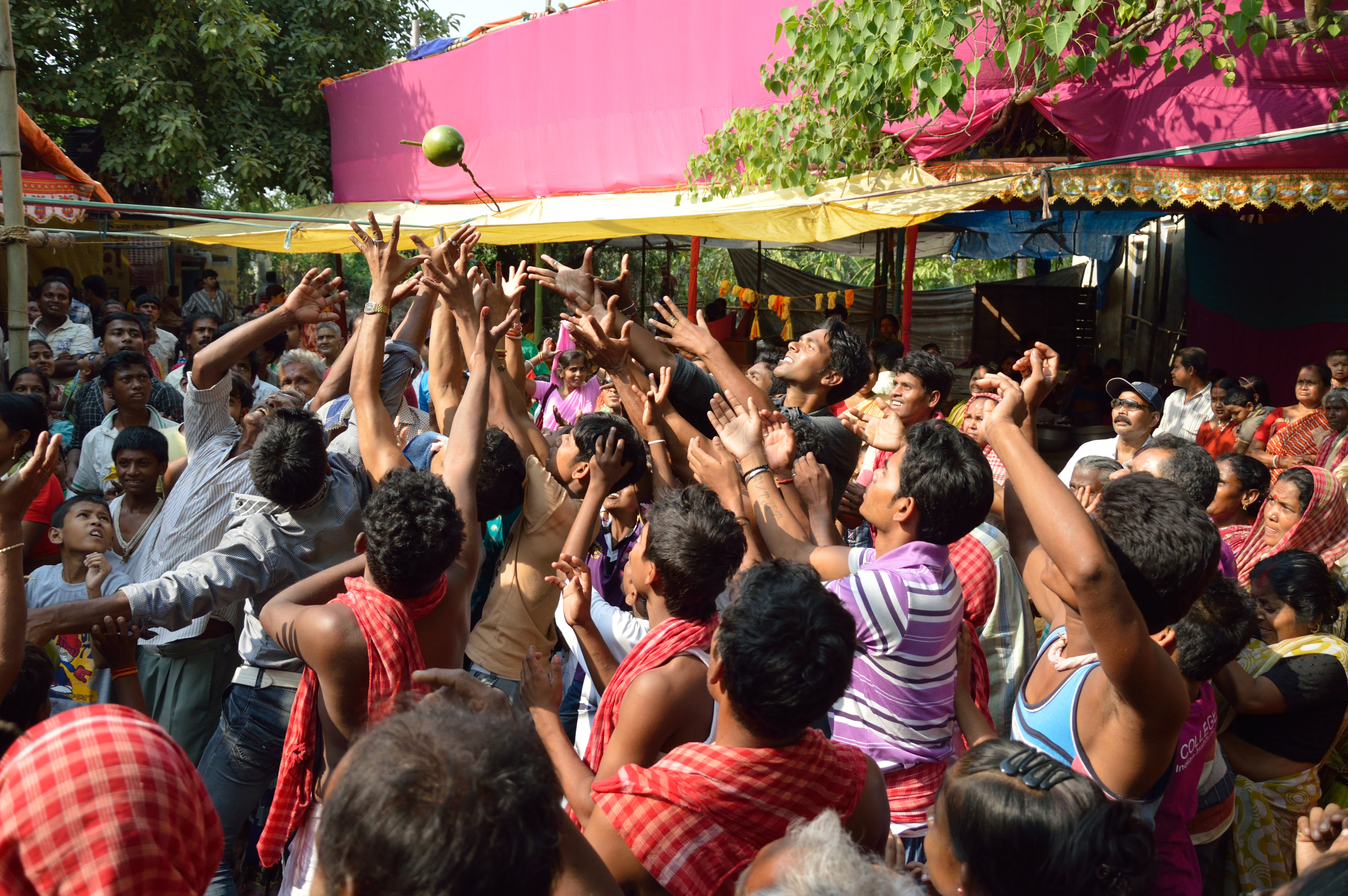 Photographed during the 'Charak' and 'Gajan' festival at the village Narna of Howrah, West Bengal. A village fair also took place at the high summer. Charak and Gajan puja are traditional Bengali folk festivals of the Hindus celebrated before the Bengali new year day in the Bengal. Charak puja dedicated strictly to penance, it is unique in the Bengal. Gajan is also celebrated mostly in the Bengal, it is associated with Shiva, Neel and Dharma.